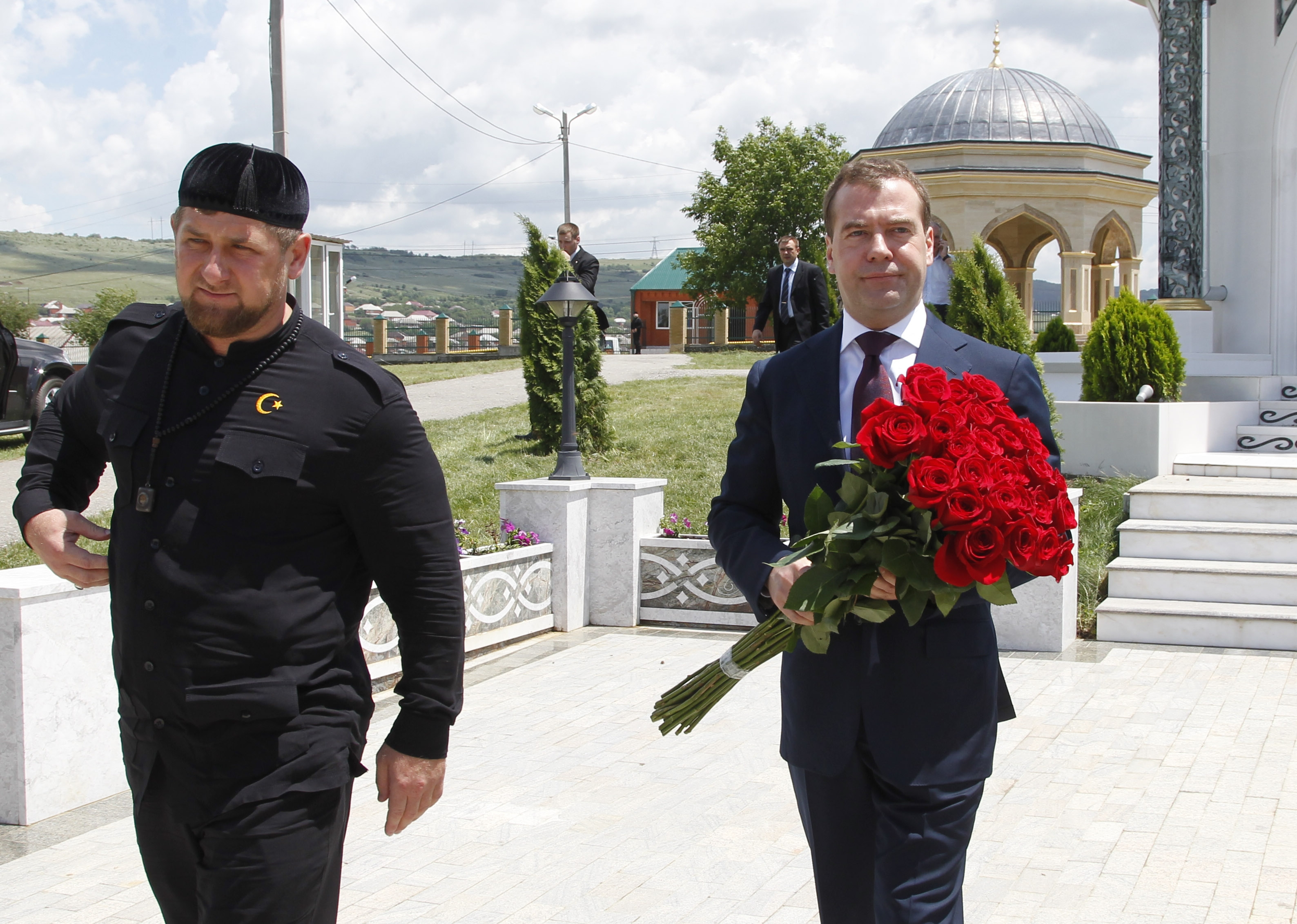 Head of the Chechen Republic Ramzan Kadyrov and Russian Prime Minister Dmitry Medvedev laying flowers to the grave of the first President of Chechnya Akhmad Kadyrov at the village of Tsentaroy, Chechen Republic.